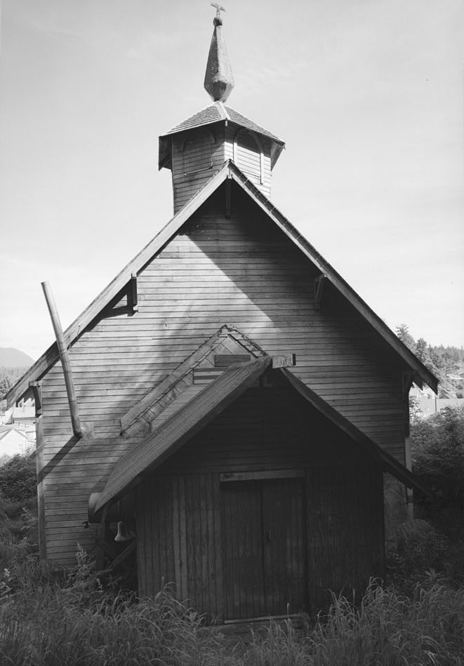 Western front of St. John the Baptist Russian Orthodox Church in Angoon, Alaska, United States. Under the name of "St. John the Baptist Church", the church (built in 1928) is listed on the National Register of Historic Places.